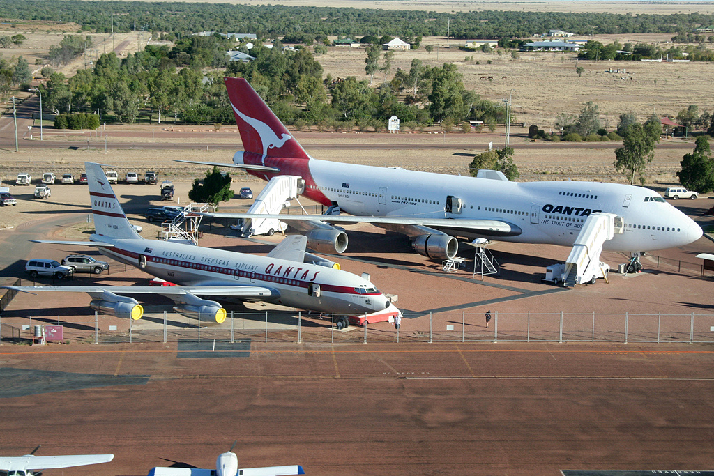 Airborne view of Qantas Airways First Boeing 707, VH-XBA, (formerly VH-EBA) at the Qantas Founders Outback Museum at Longreach (the Birthplace of Qantas). VH-XBA (City of Canberra) joined Qantas Boeing 747-238B VH-EBQ (City of Bunbury) which has been at the Museum since Nov 2002. (Note, Registration VH-EBA is currently on a JetStar A330-202.) Photo taken from R44 Raven VH-HOQ.